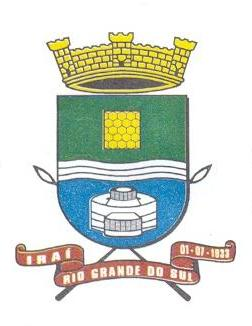 Coat of arms to Iraí City, Rio Grande do Sul State, Brazil.